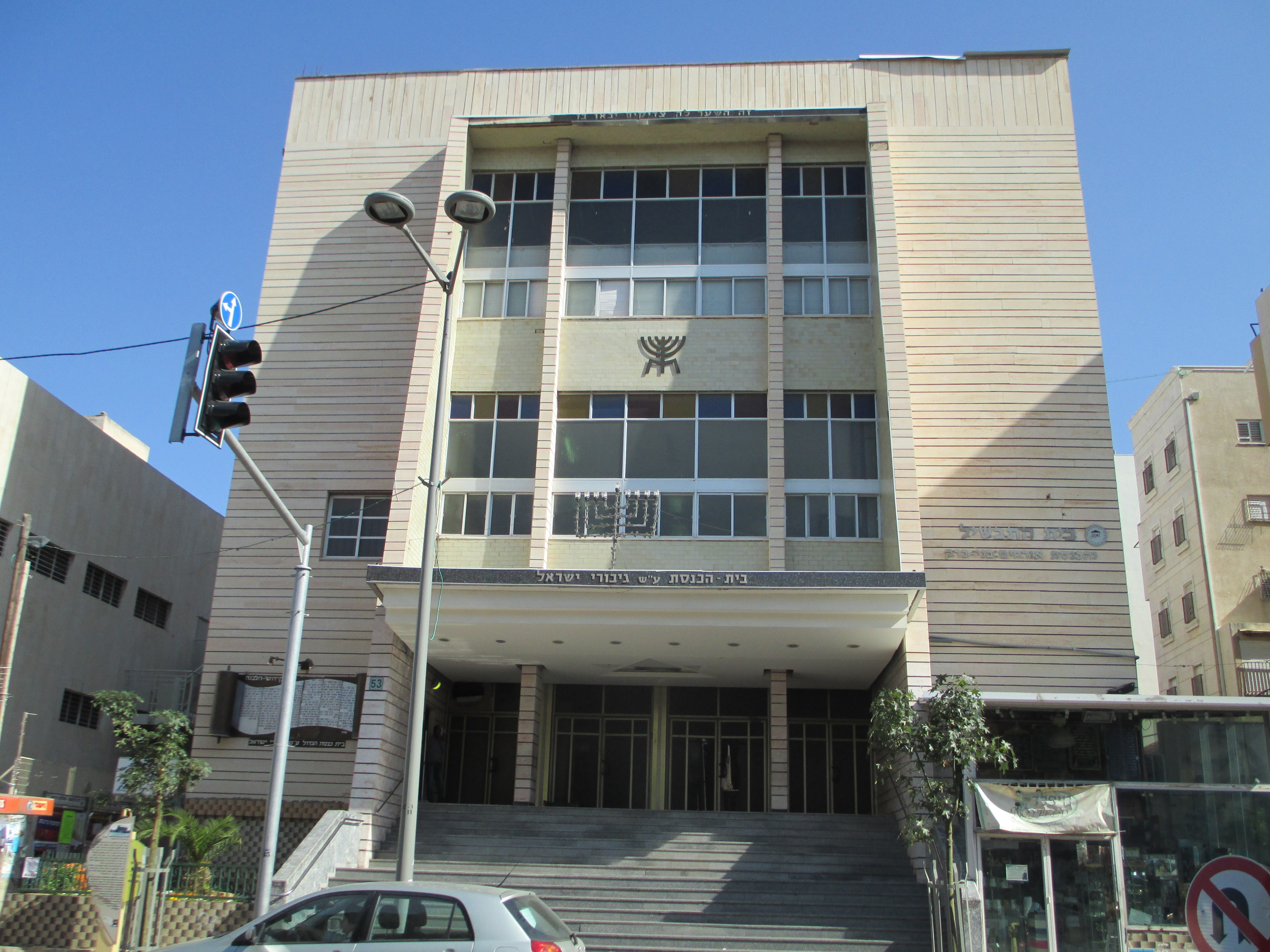 Great Synagogue in Bnei Brak